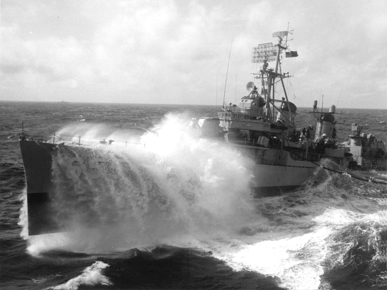 The U.S. Navy destroyer USS John Hood (DD-655) being refueled in heavy seas, 1962. Note that she is equipped with the AN/SPS-28 radar.